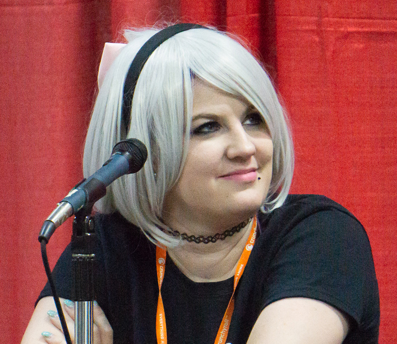 Kira Buckland at Thy Geekdom Con 2019